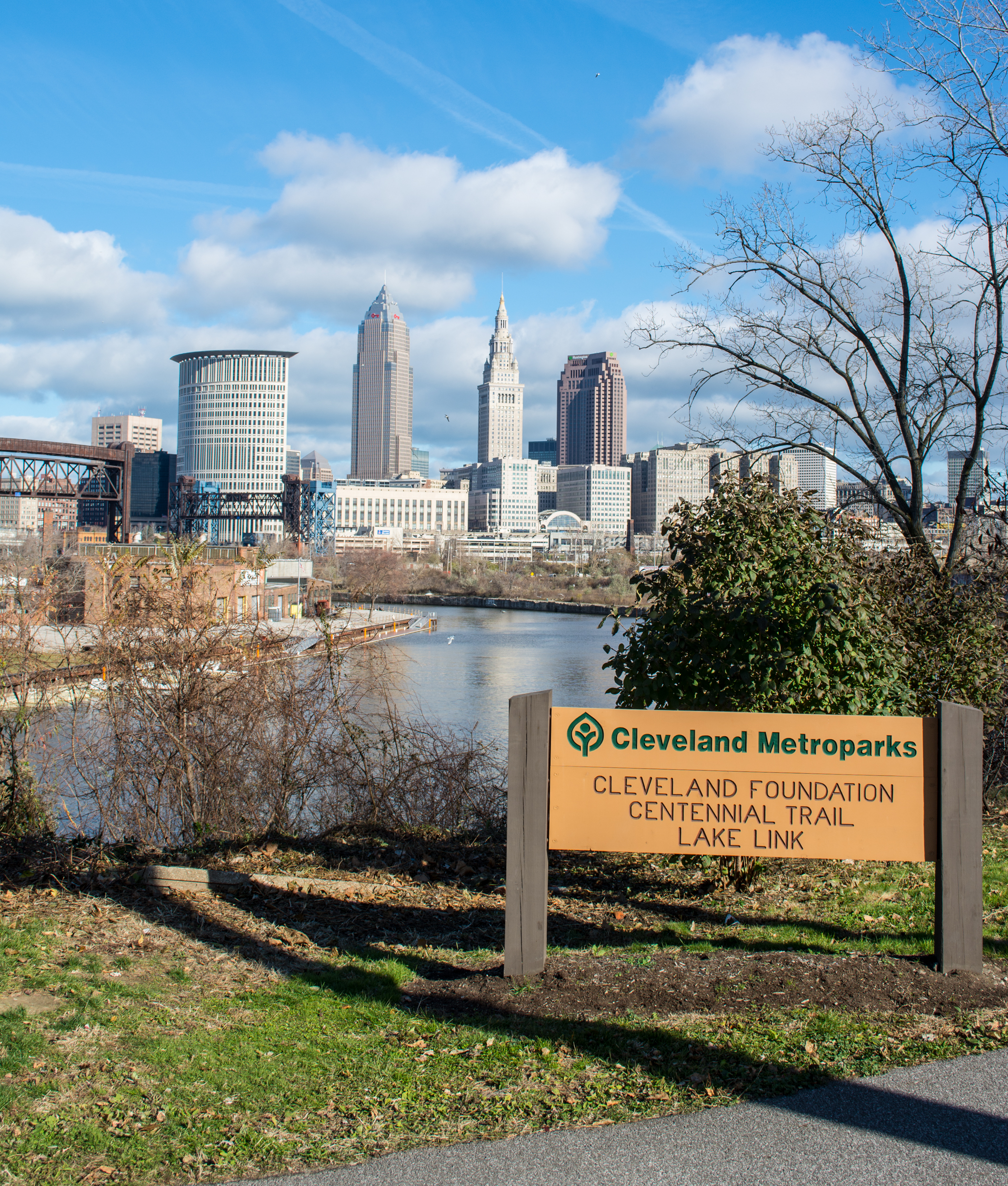 Northern terminus of the south leg of the Cleveland Foundation Centennial Lake Link Trail in Cleveland, Ohio, in the United States. This leg began construction in the fall of 2014, and it opened on August 13, 2015. Work began on the northern leg in August 2016, and it opened on June 9, 2017. Work on the middle section of the trail is delayed pending stabilization of the Irishtown Bend hillside.